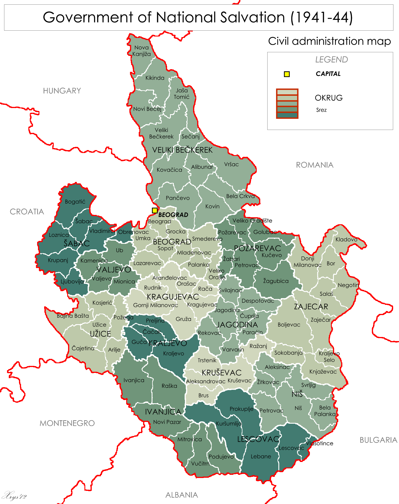 Map showing the Okruzi and Srezovi of Serbia from 1941-44.